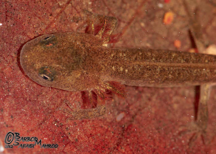 Neurergus kaiseri larva at Dej-e Mohamad Ali Khan (Mamdalikhan), Haft Tanan Mountain, Khoozestan Province, Iran